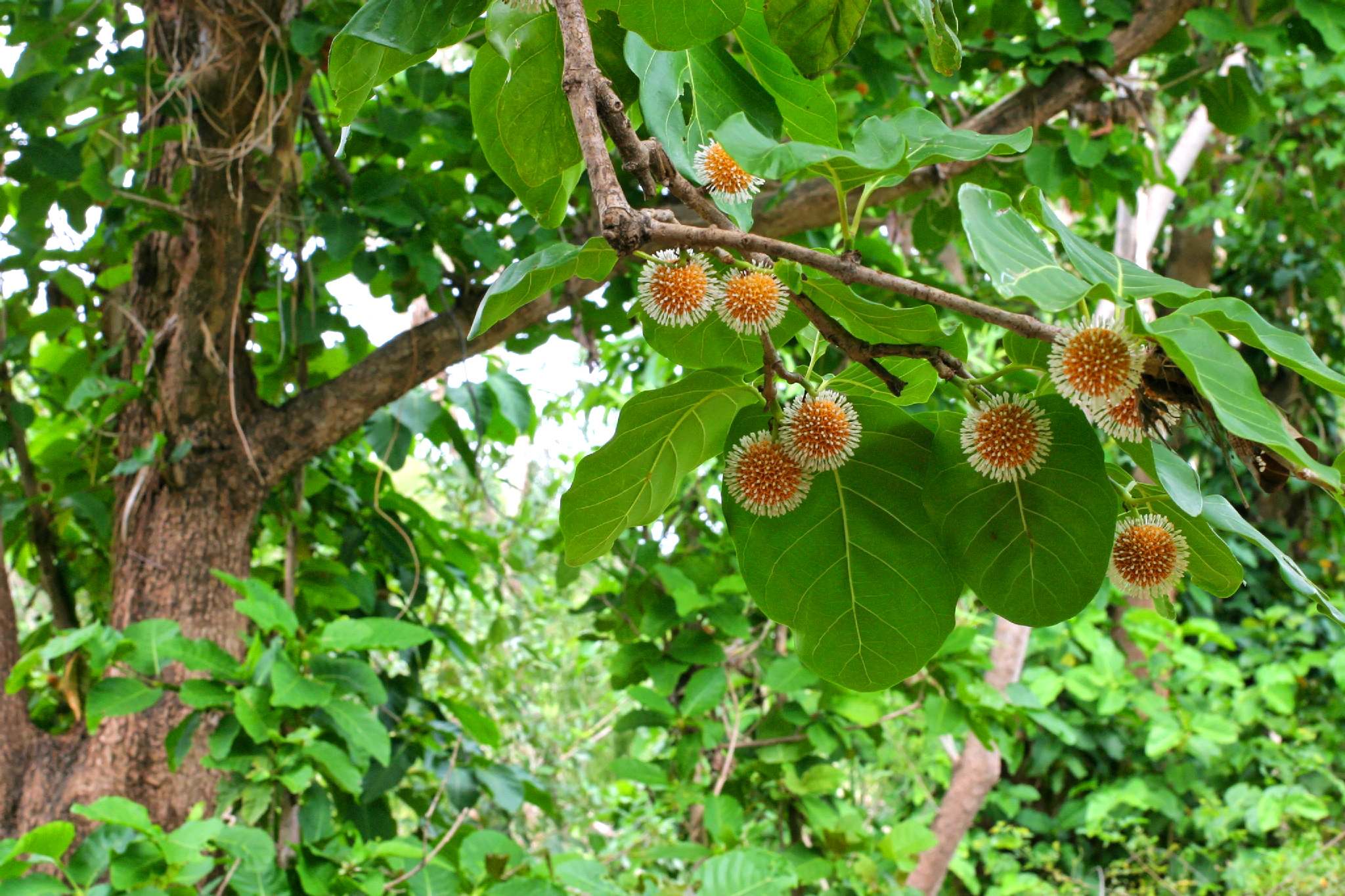 Northern Territory -- Gregory National Park: East Baines River downstream from Bullita homestead, somewhere near "Drovers' Rest" camp.